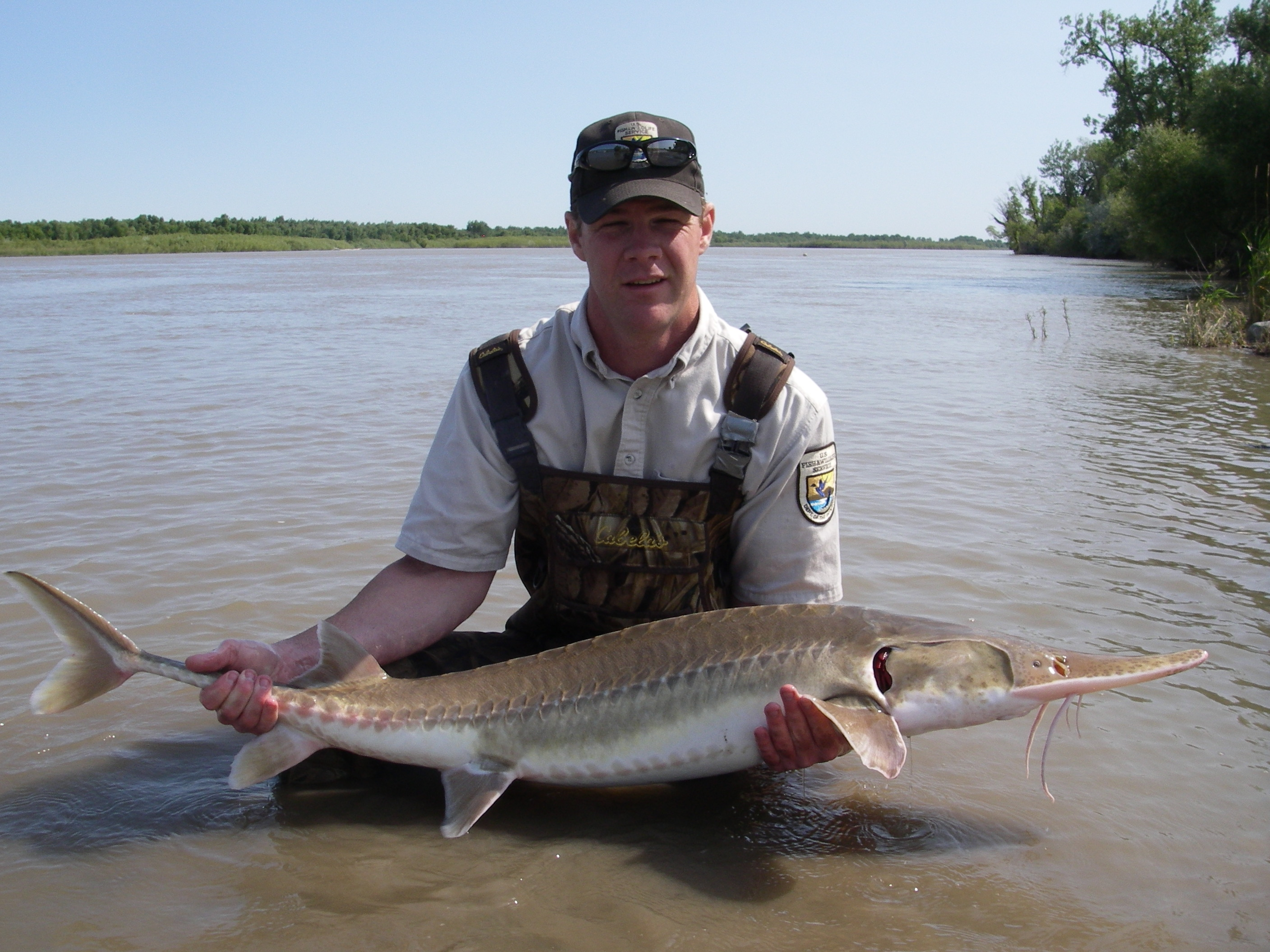 Pallid sturgeon (Scaphirhynchus albus) caught at Garrison Dam in North Dakota in the United States.